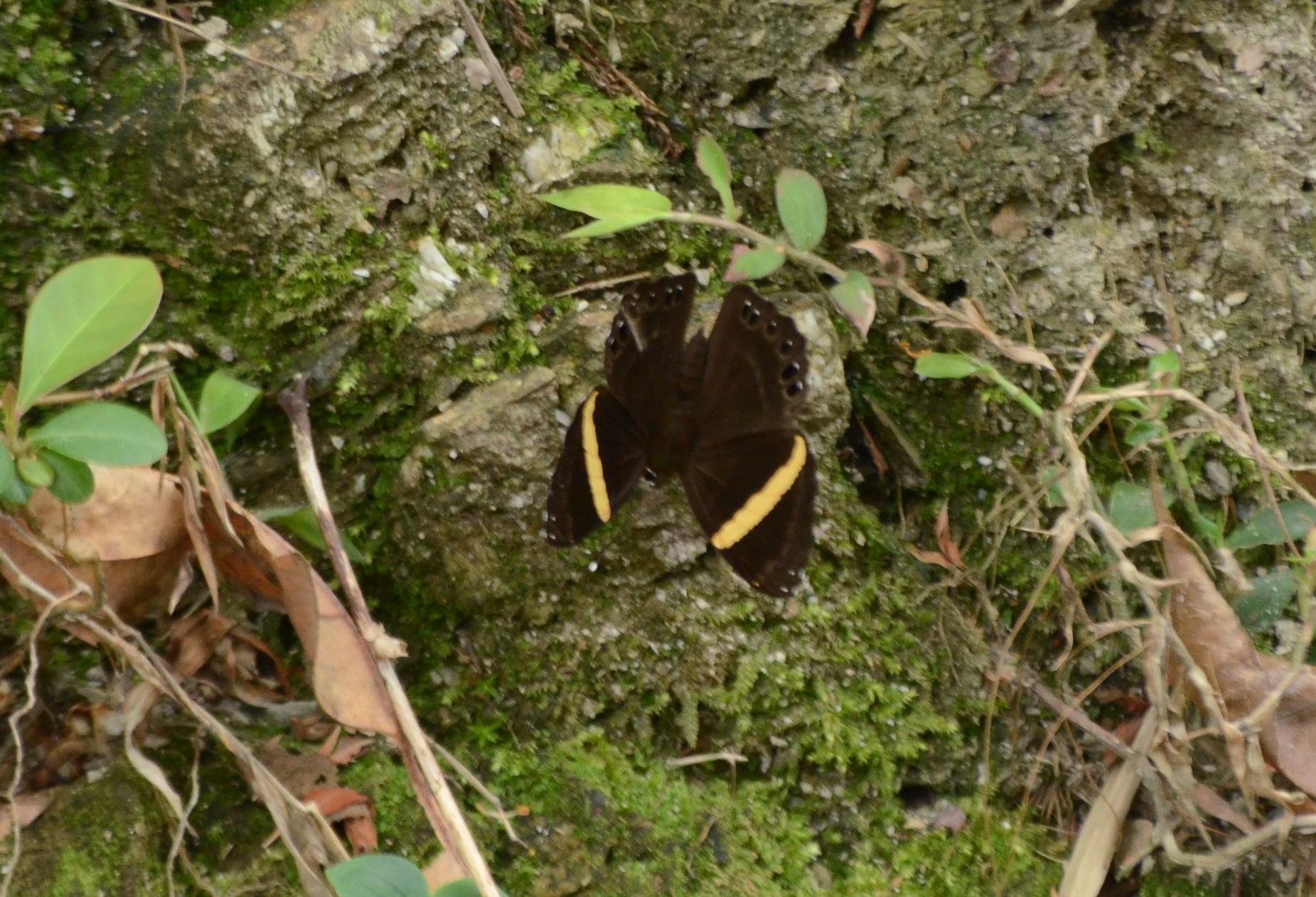 This image was taken in the project Wiki Loves Butterfly.Open wing position of Abisara fylla Westwood, 1851 – Dark Judy